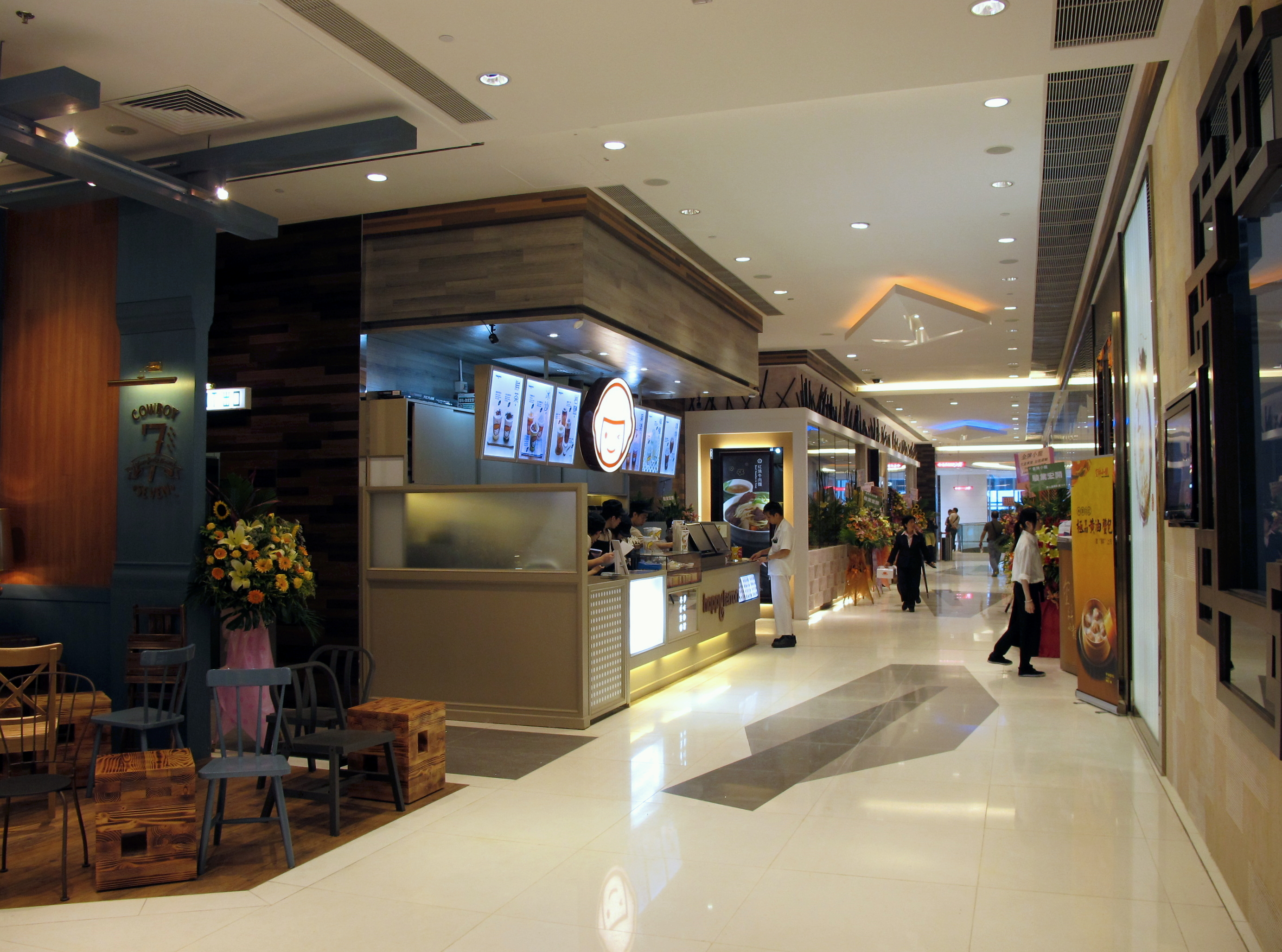 The ONE Level 4 F&B Outlet